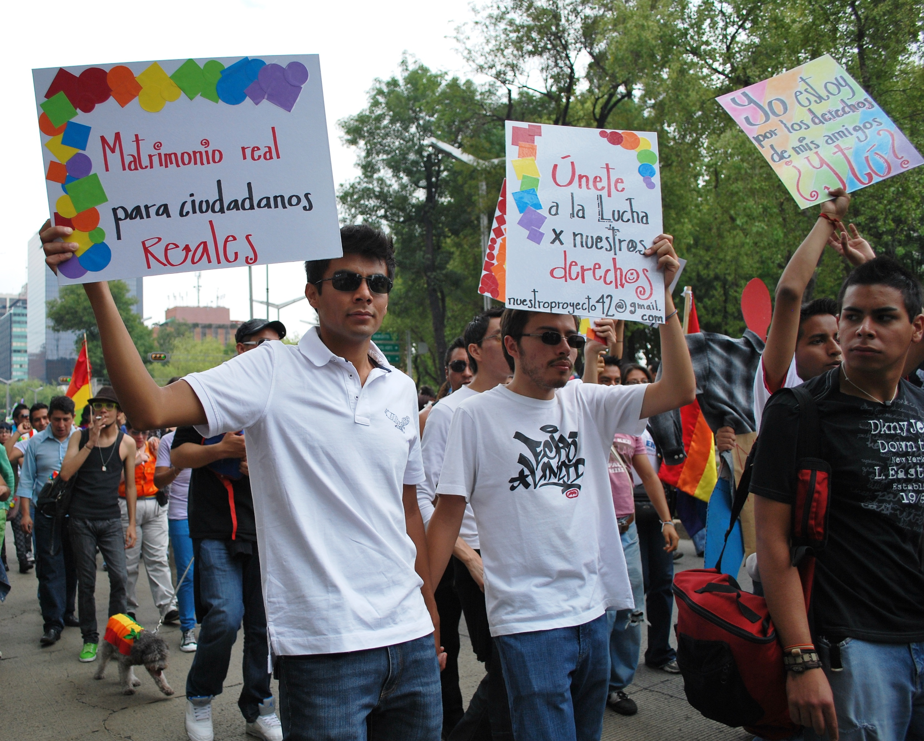 Demonstrating for gay rights at the 2009 Marcha Gay in Mexico City